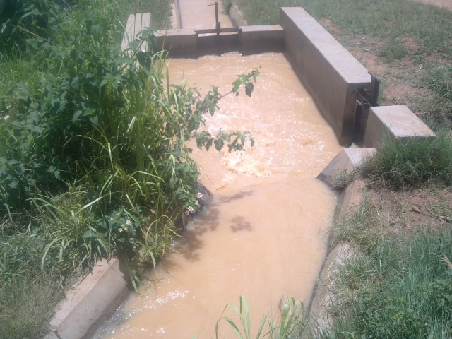 This is the main literal from the night storage just before it supplies branch canals at Ngondoma Irrigation Scheme